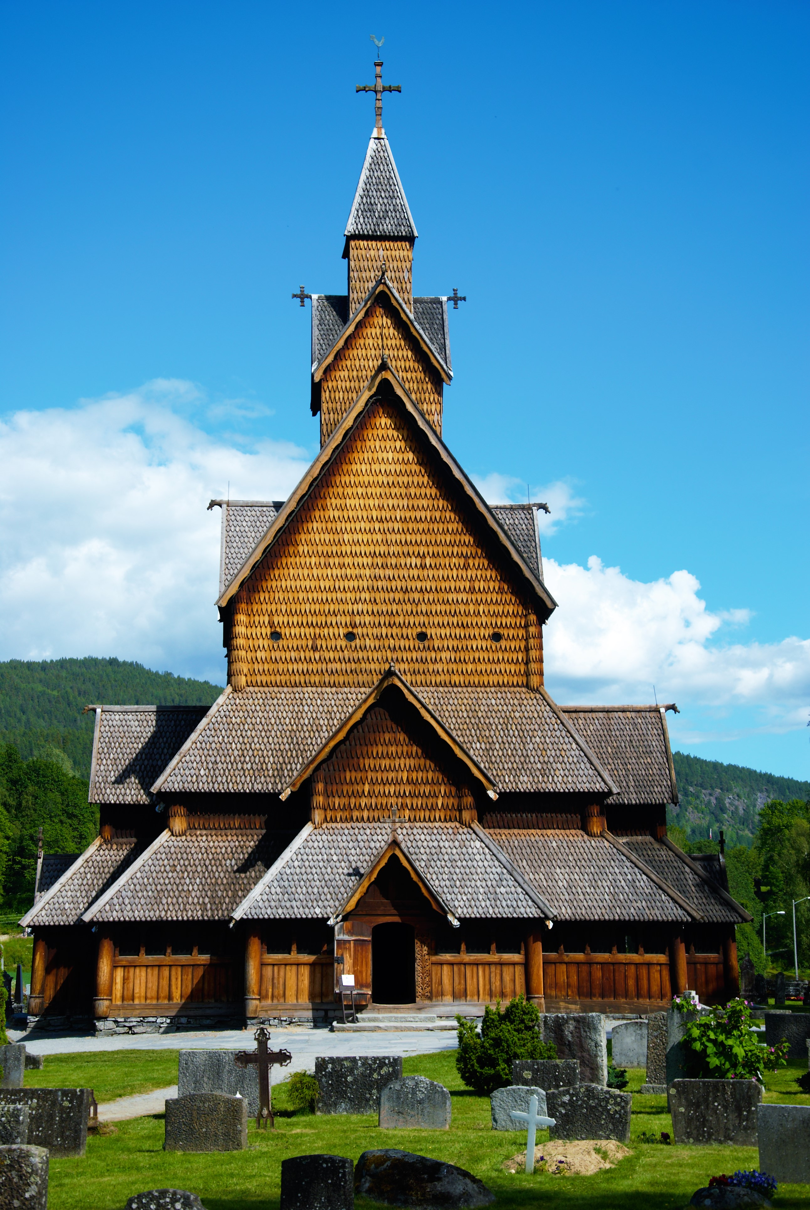 Heddal stavkirke simetric view from the front.